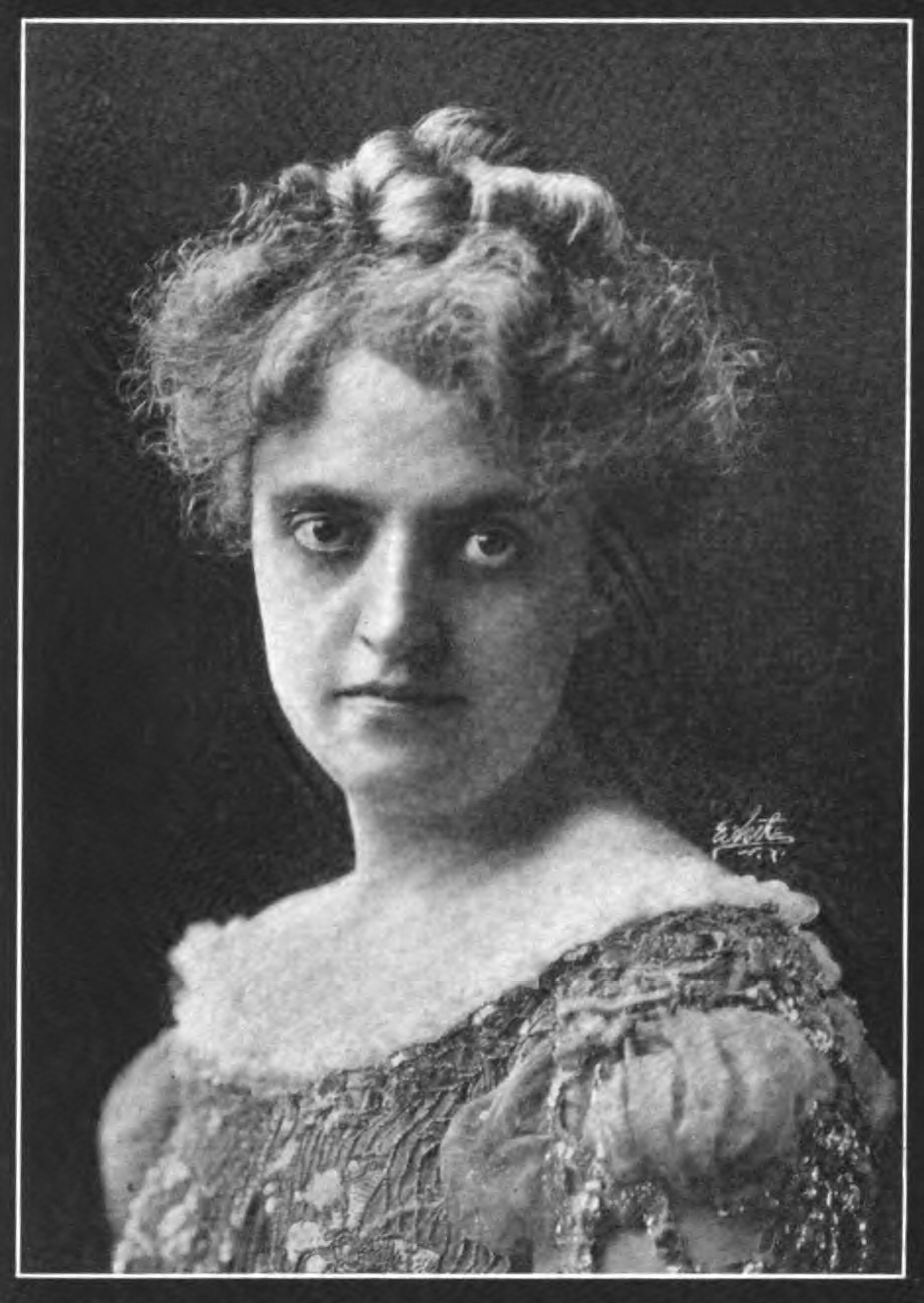 Zelda Sears, née Paldi (January 21, 1873 — February 19, 1935) was an American actress, screenwriter, novelist and businesswoman.